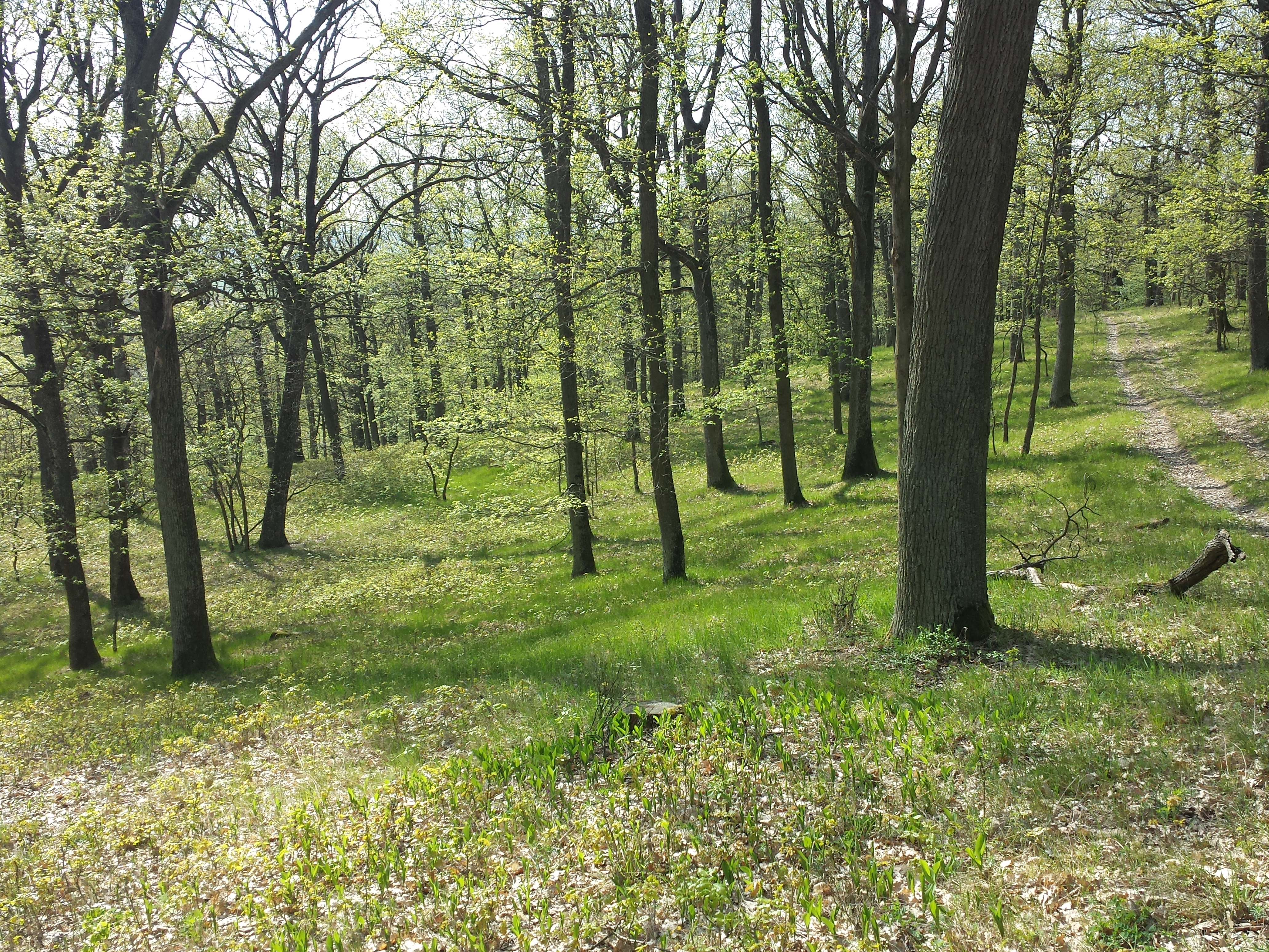 Habitat Taxonym: Carex praecox ss Fischer et al. EfÖLS 2008 ISBN 978-3-85474-187-9 Location: Galgenwald east of Merkersdorf, district Korneuburg, Lower Austria - ca. 330 m a.s.l. Habitat: bright wood